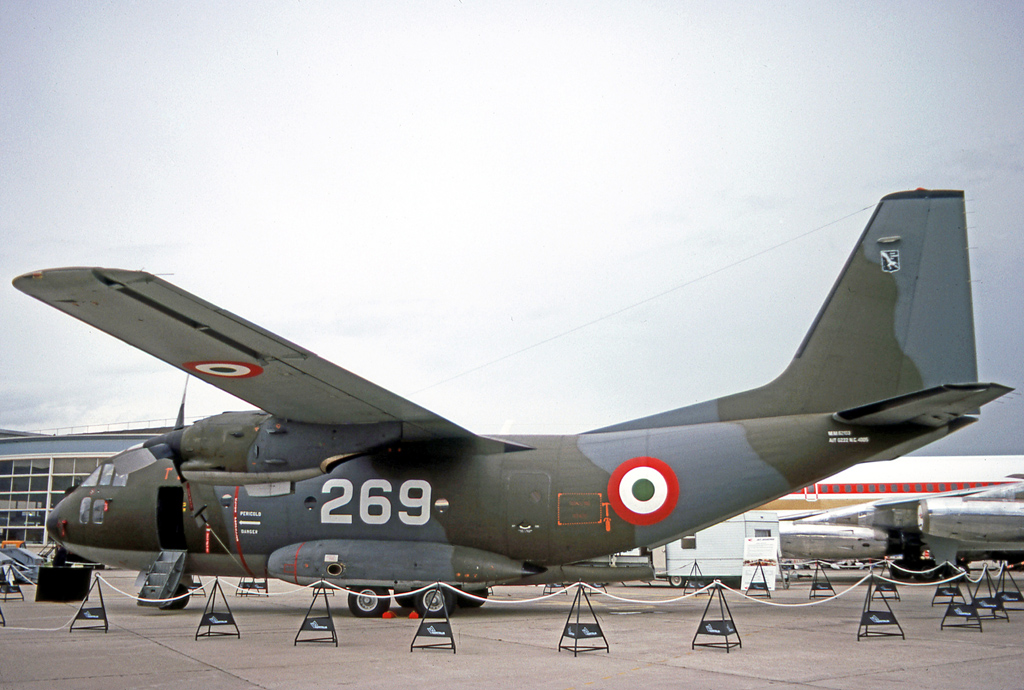 Fiat G.222TCM MM62103 of the Italian Air Force exhibited at the 1977 Paris Air Show